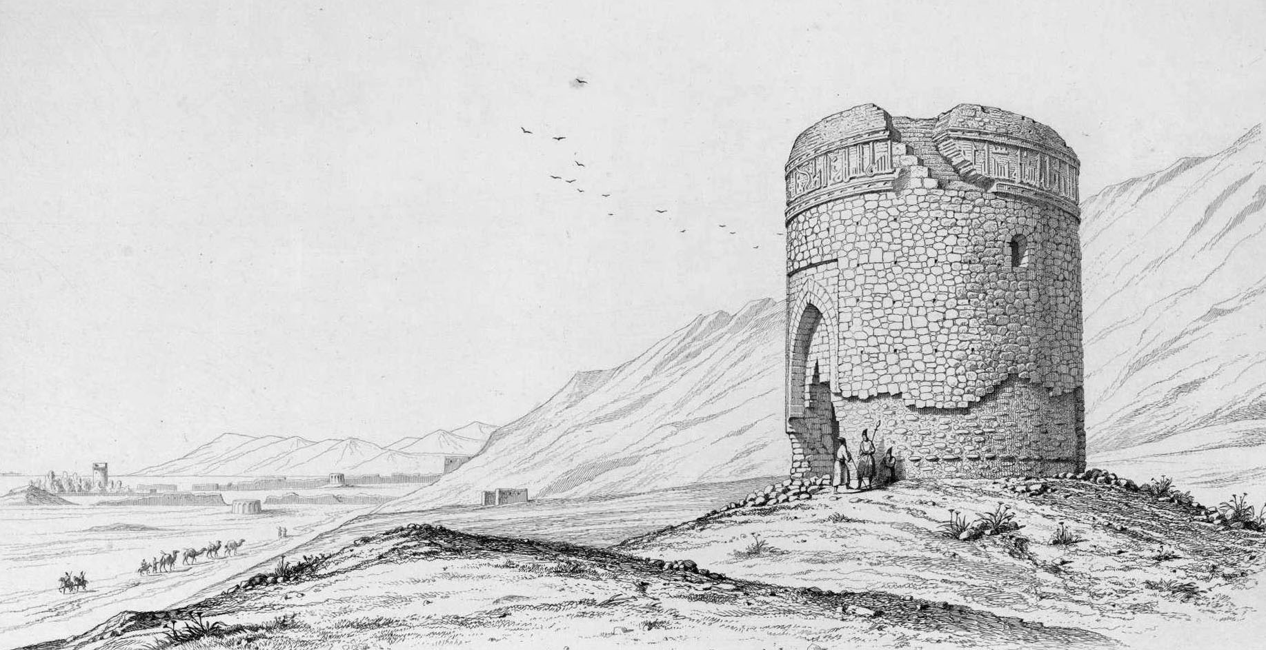 Details of the tower built of stone, Ruins of Rei